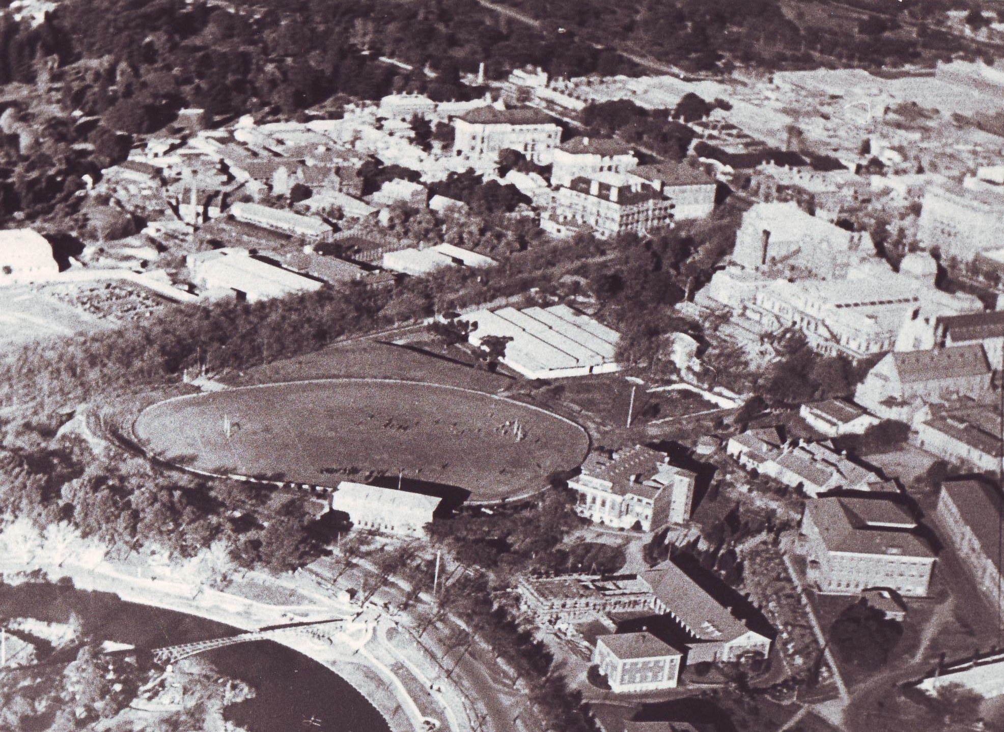 A view of the former Jubilee Oval located where Adelaide University buildings are located. A small strip of grass at the same position as the original oval still remains.